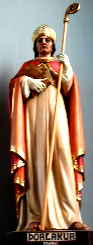 Saint Thorlac, medieval bishop of Iceland, regarded as patron saint of Iceland.